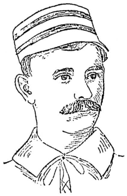 An illustration of professional baseball player Percy Griffin from the March 19, 1897, edition of The Nashville American.